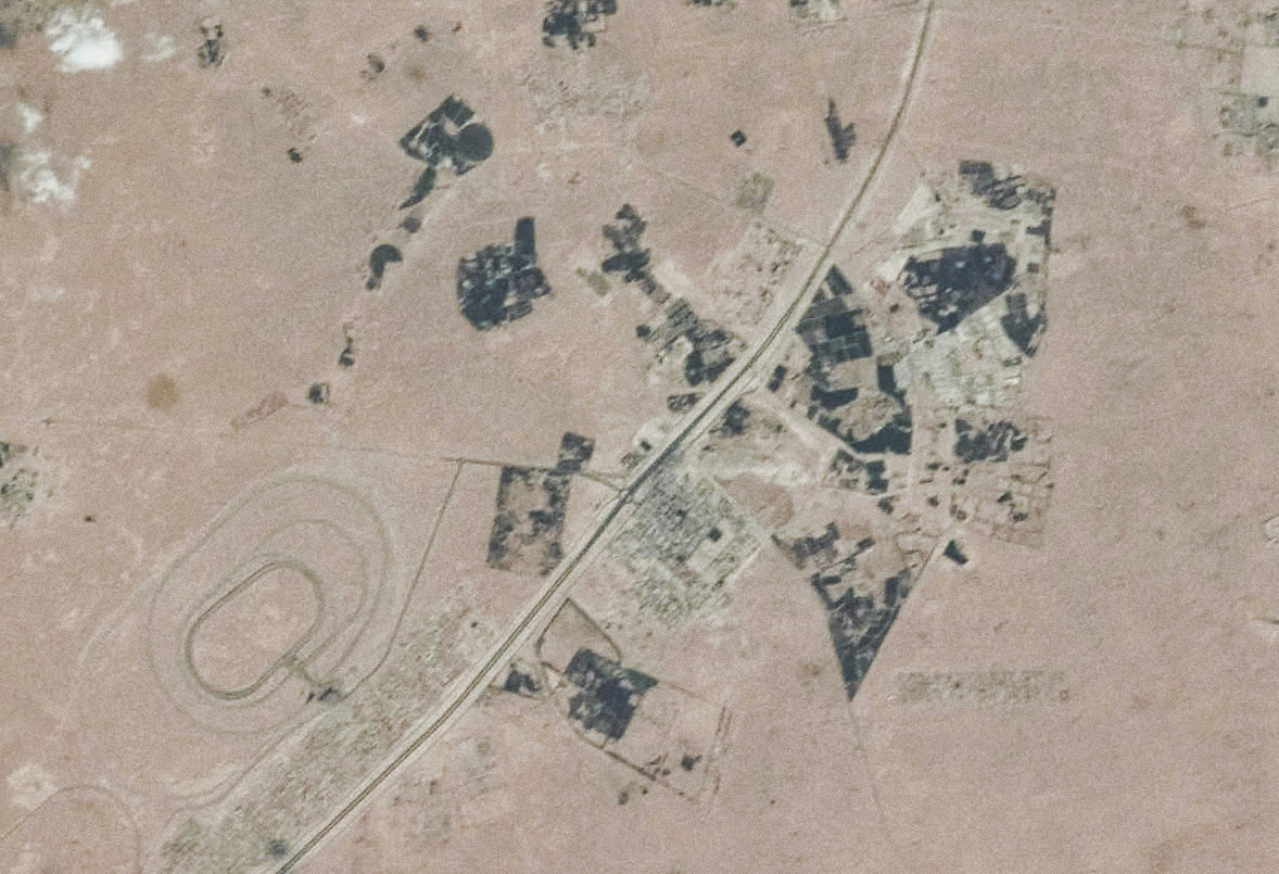 Satellite imagery of Al-Shahaniya City taken in 2010 by NASA.